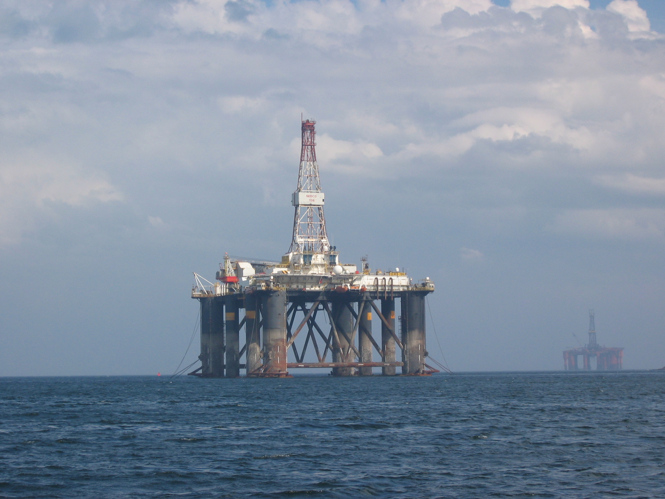 Oil Rig, Cromarty, Scotland